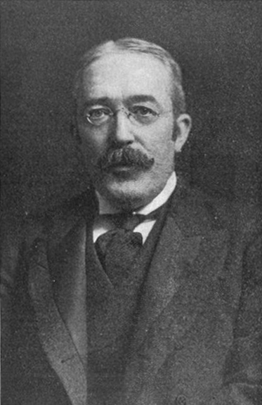 Samuel Livingston Mather, American shipping and iron mining magnate, in 1908.